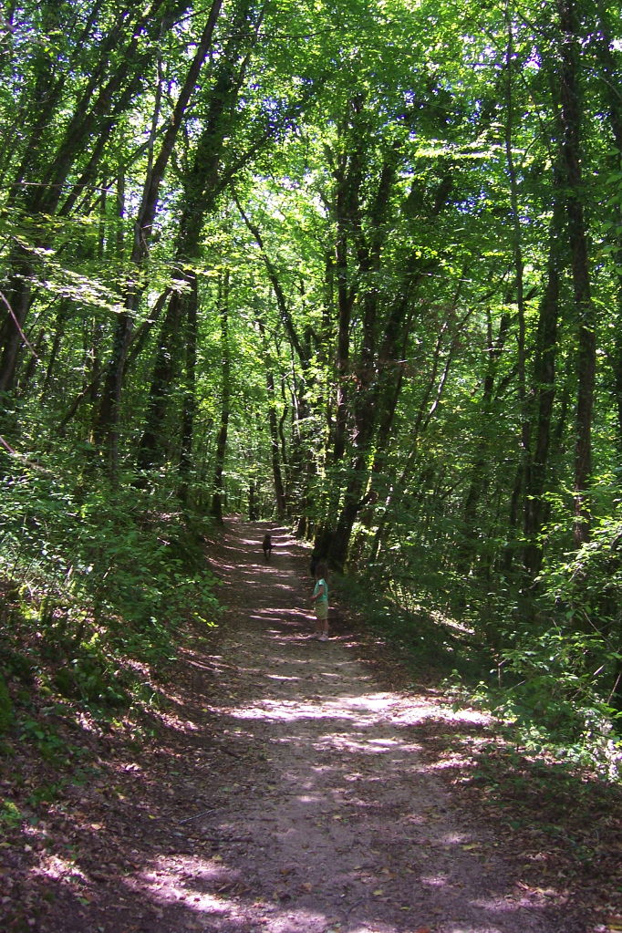 Path between Cabouy and Saint Sauveur near the river Ouysse